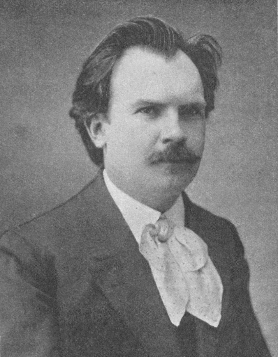 Eugen d'Albert (1849–1921), Scottish-born German pianist and composer.